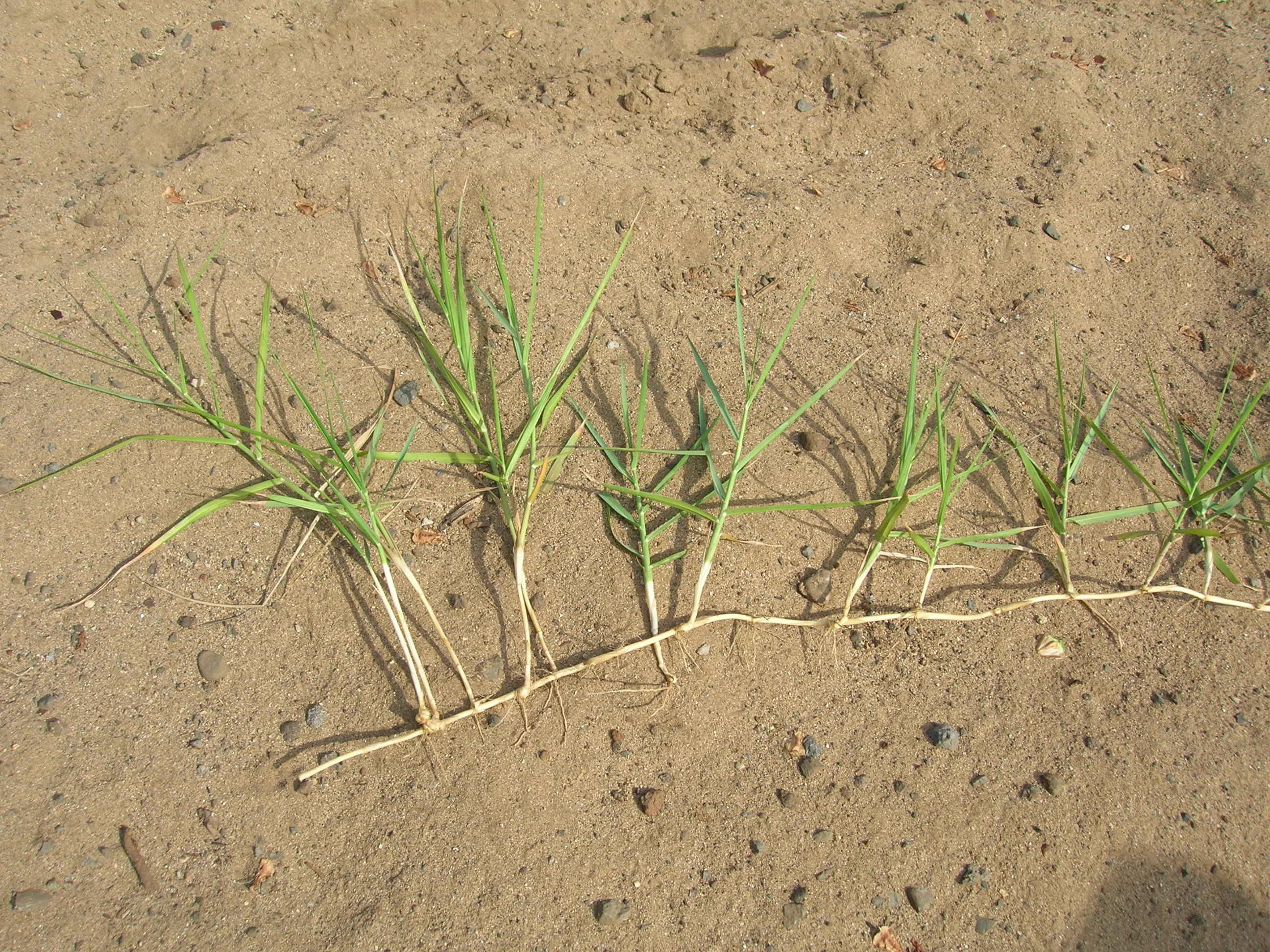 Panicum repens (habit). Location: Maui, Waiohuli Keokea